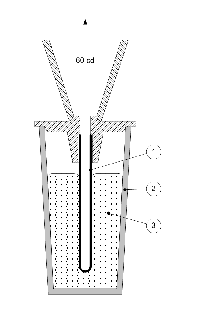 Special version of a "black body" (instrument), used for defining the luminous intensity unit, before its current scientific International Standard (SI) definition